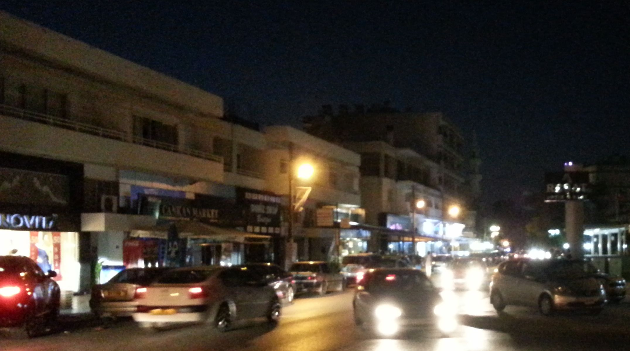 A view from the bustling Dereboyu Street at night